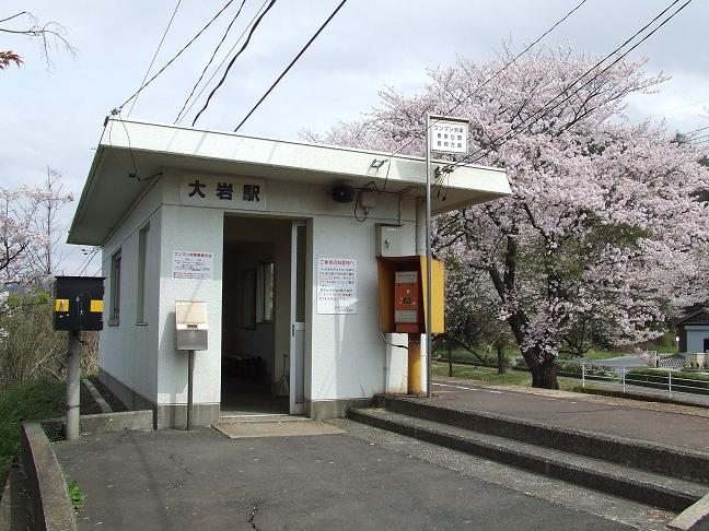 Oiwa Station on San'in Main Line